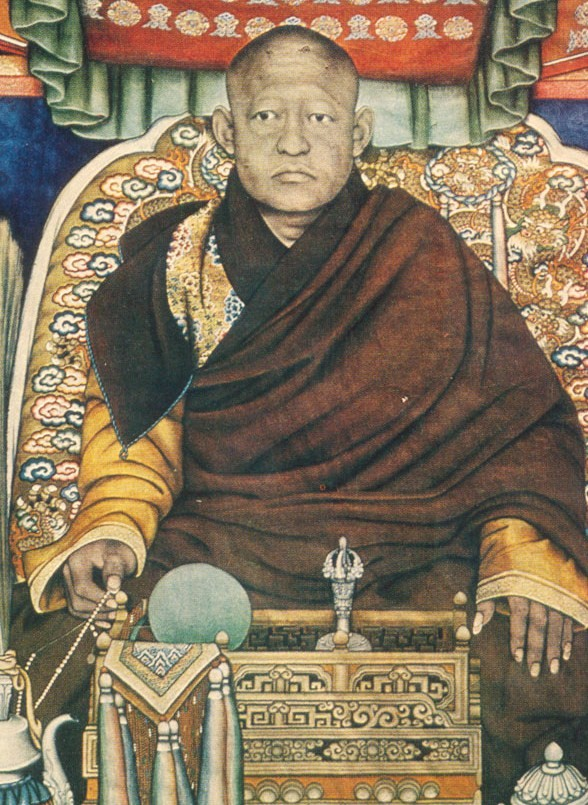 Depicted person: Bogd Khan – Great Khan of Outer Mongolia